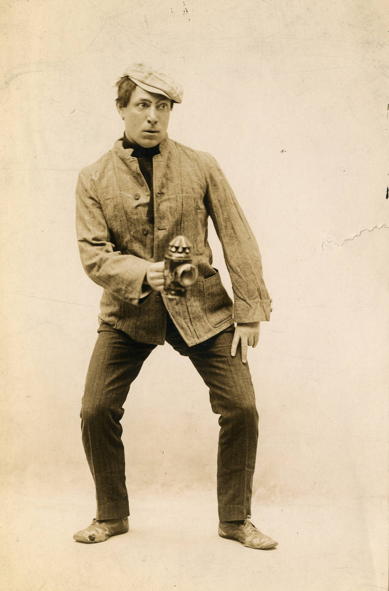 Budd Ross, stage actor Subjects: actors